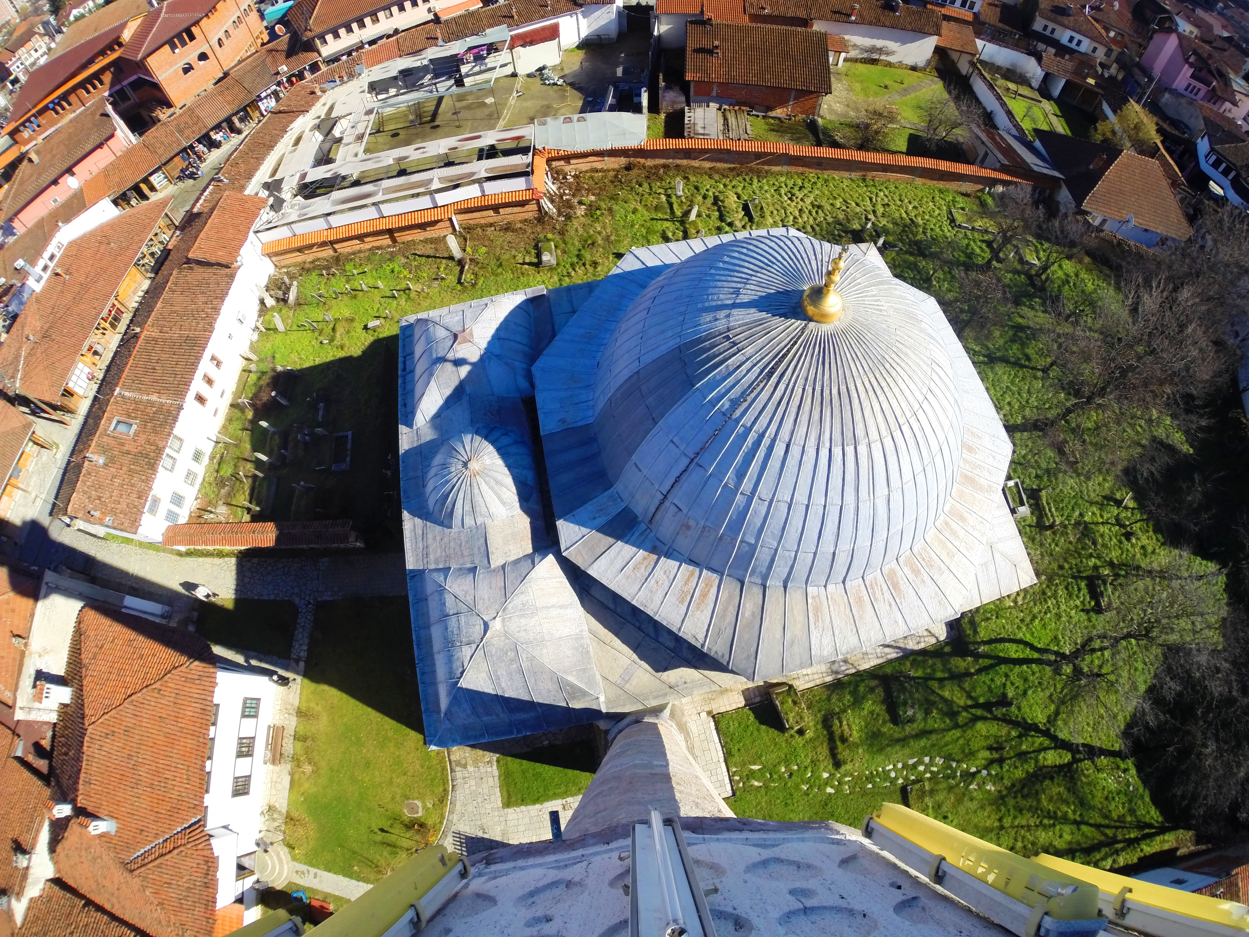 The Hadum Mosque built in 1594/95. Next to it was built the library which was bigger than mosque and next to the library the school. Sylejman Hadum Aga, besides this complex , built , in the nearness a " muvaki hane " an object for measuring the time and for determining the calendar , a " hamam " ( public bath) a, " han " ( inn ) and some shops that represent the nucleus of the " Çarshia e Madhe " ( Big Bazaar )